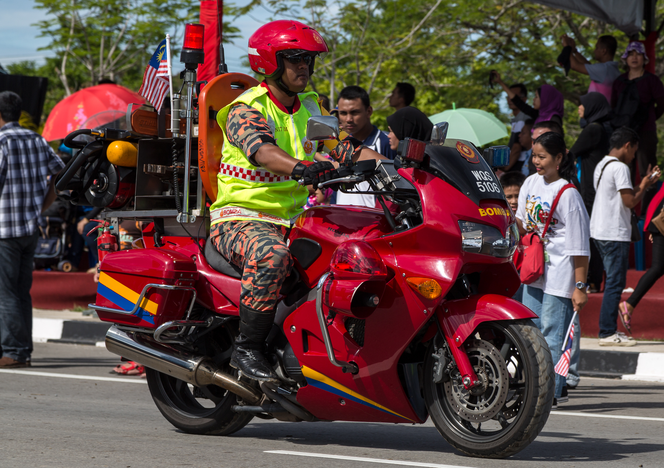 Kota Kinabalu, Sabah, Malaysia: Parade during Celebrations of Hari Merdeka 2013 in Likas on August 31, 2013